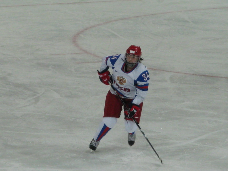 Russia defenseman Svetlana Tkacheva watches the action against China during the 2010 Winter Olympics